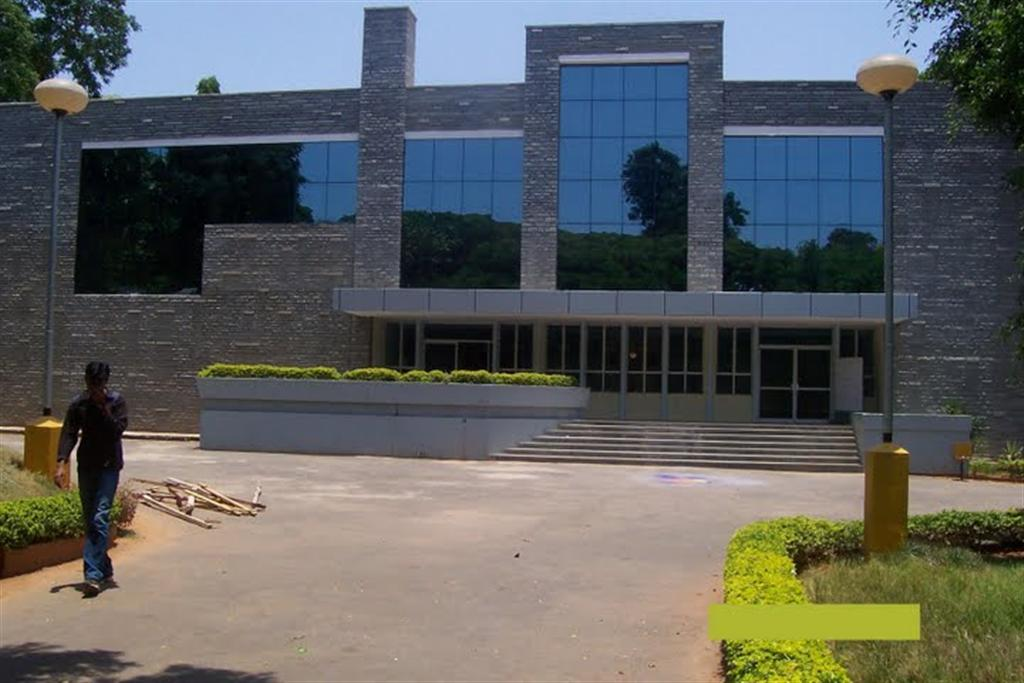 The Birla Auditorium